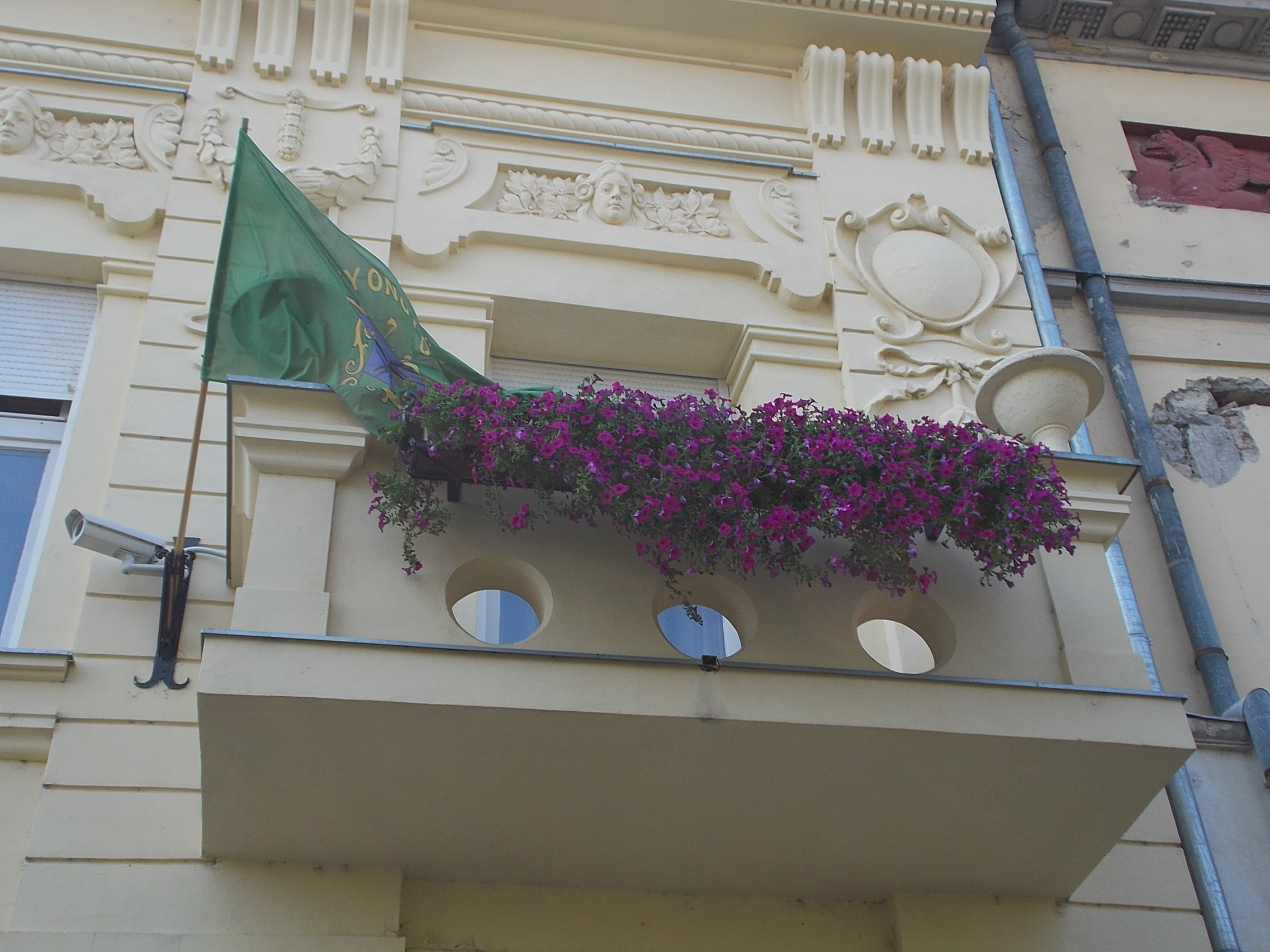 Gyöngyös Town Hall. Listed 1628. - 13, Fő square, Gyöngyös, Heves County, Hungary